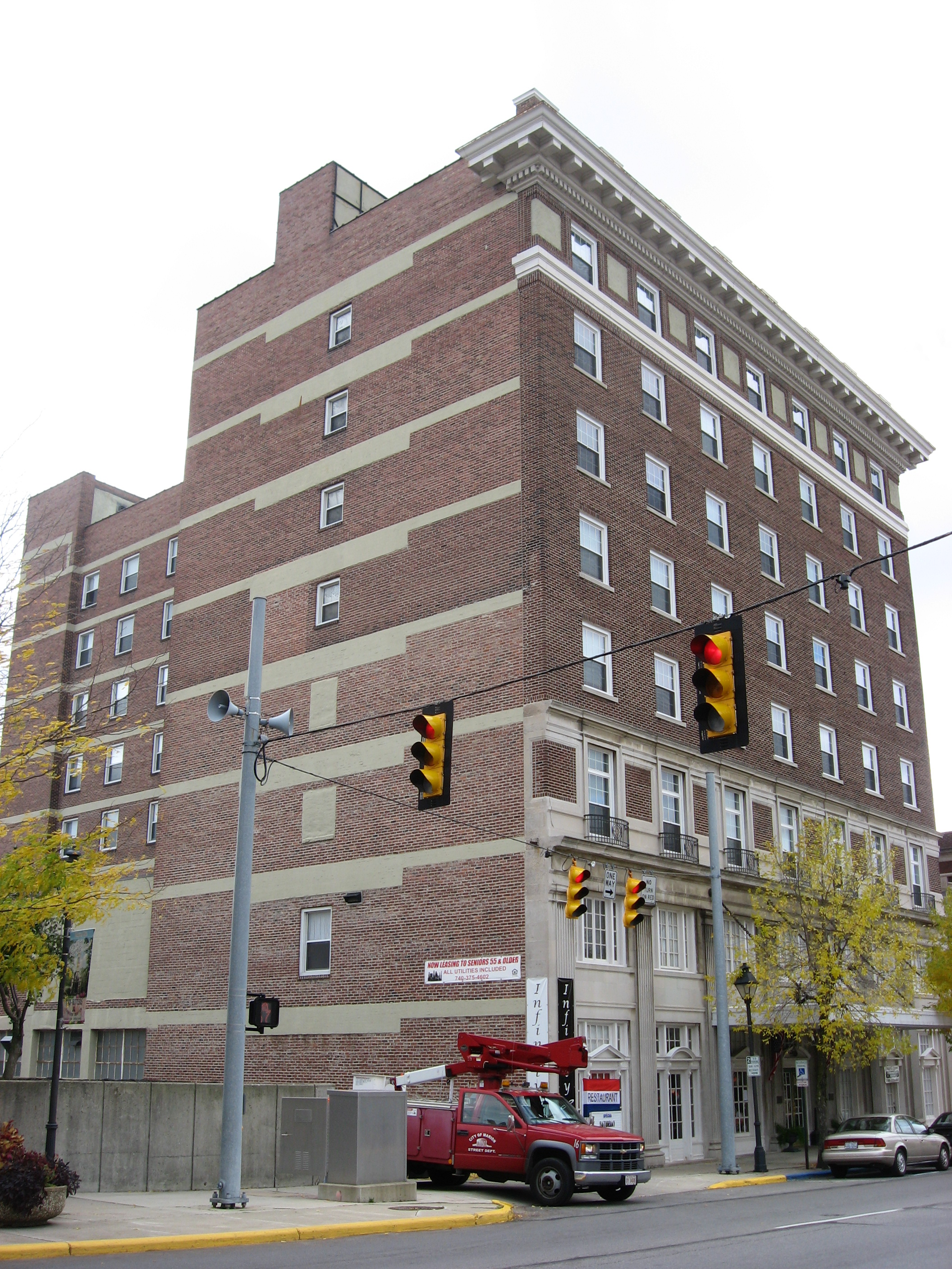 Front of the Hotel Harding, located at 267 W. Center Street (State Routes 95/309) in downtown Marion, Ohio, United States. Built in 1924 and since converted to senior citizen apartments, the hotel is listed on the National Register of Historic Places.